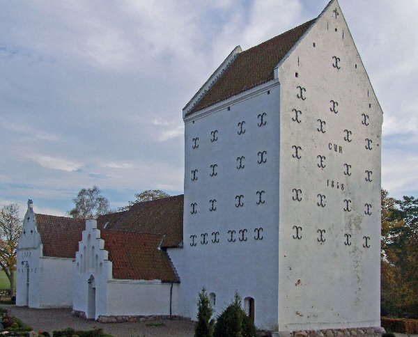 Åsted church situatede 8 km west of the danish town Frederikshavn. Photo by Jørgen Larsen, 2005-10-31.